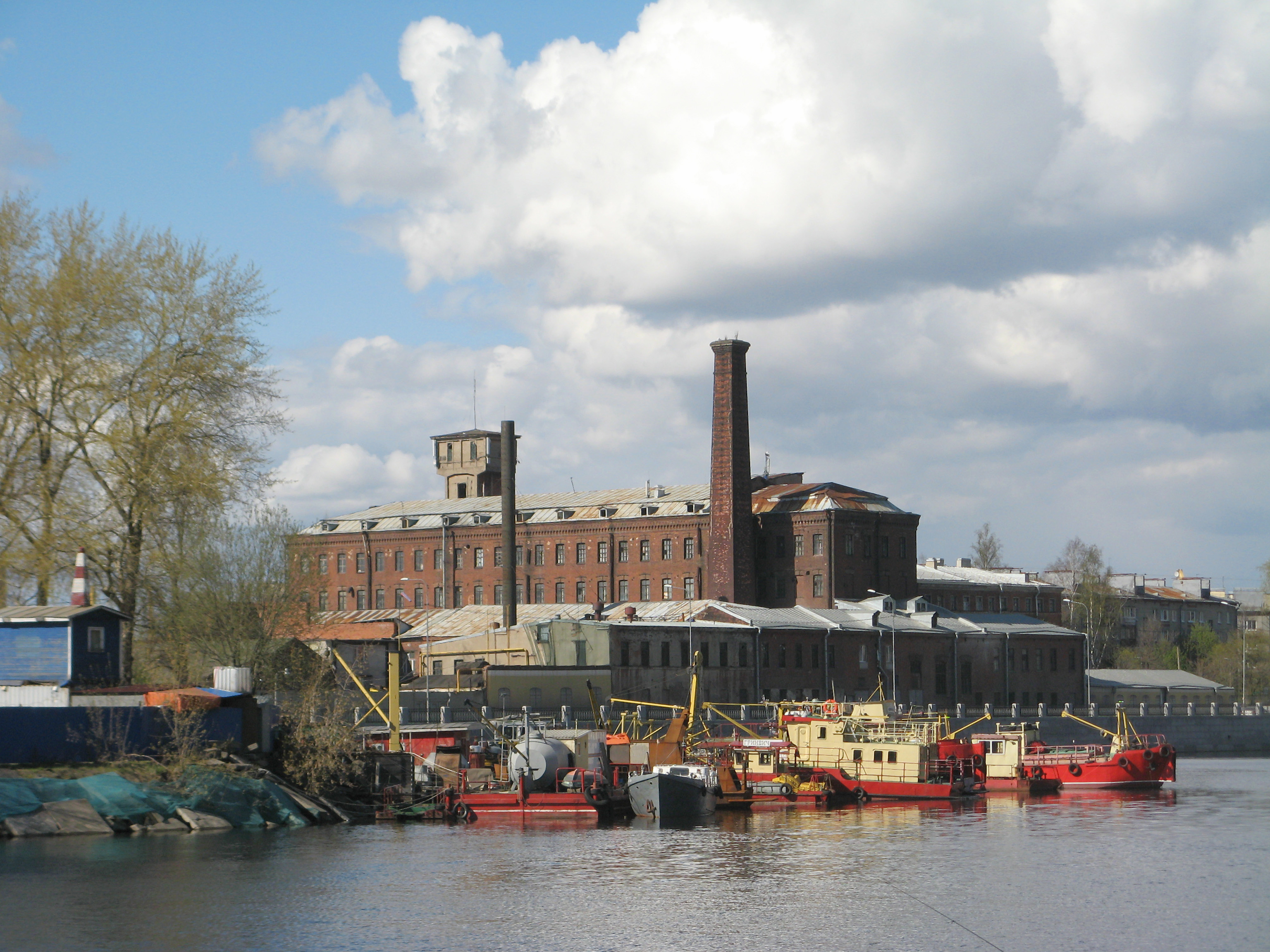 Ekateringofka Embankment, St. Petersburg